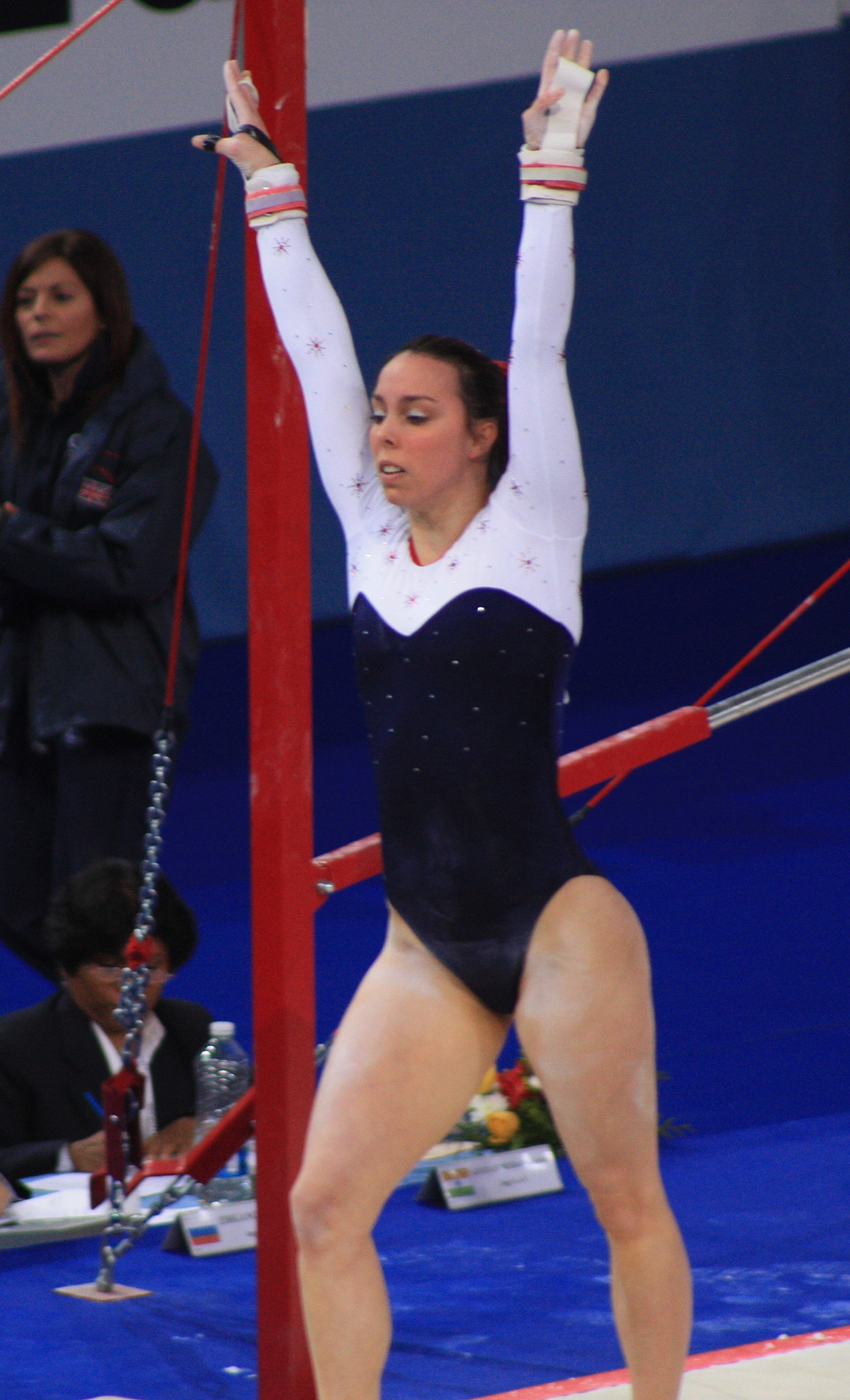 Elizabeth Tweddle at the 17th Internationaux de France in 2010, during the qualifications of uneven bars.